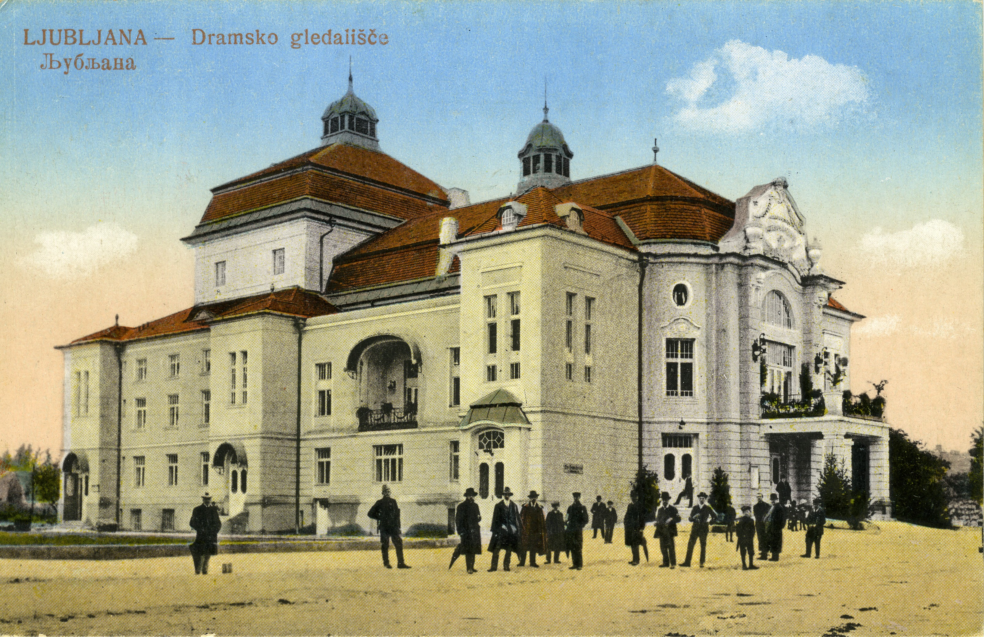 Postcard of the Ljubljana National Drama Theatre.